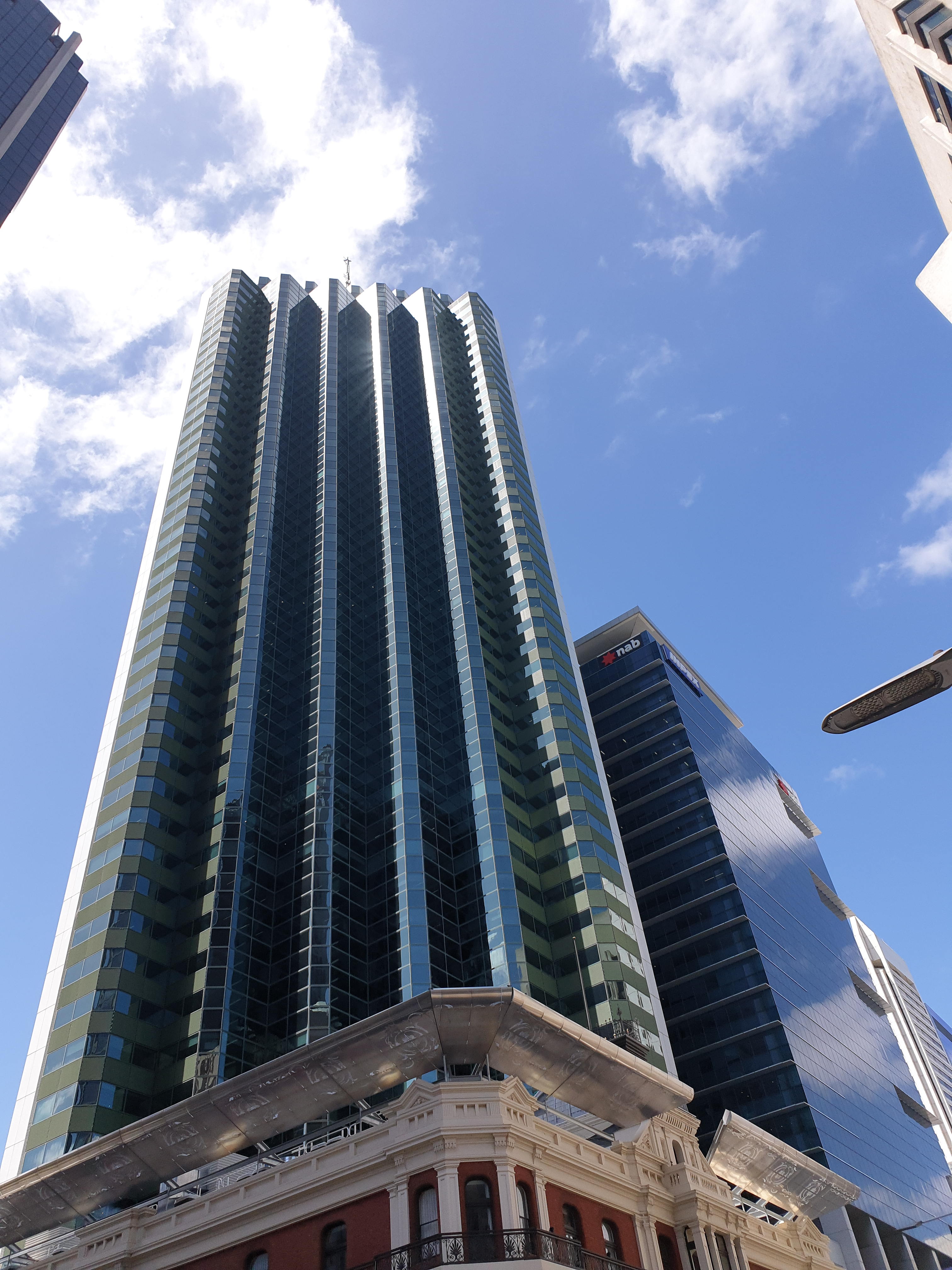 Formally known as Bank West Tower taken from St George's Terrace